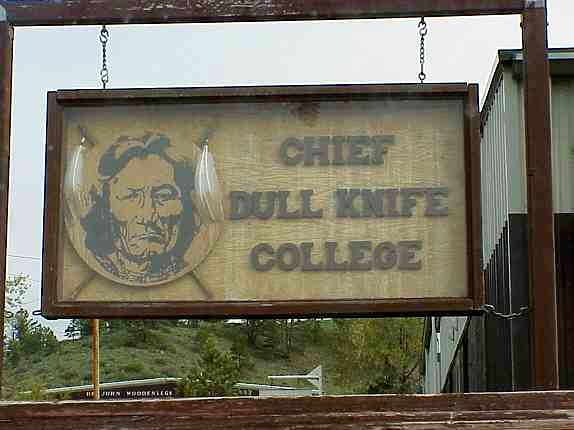 Photo of the Chief Dull Knife College sign outside of the library.